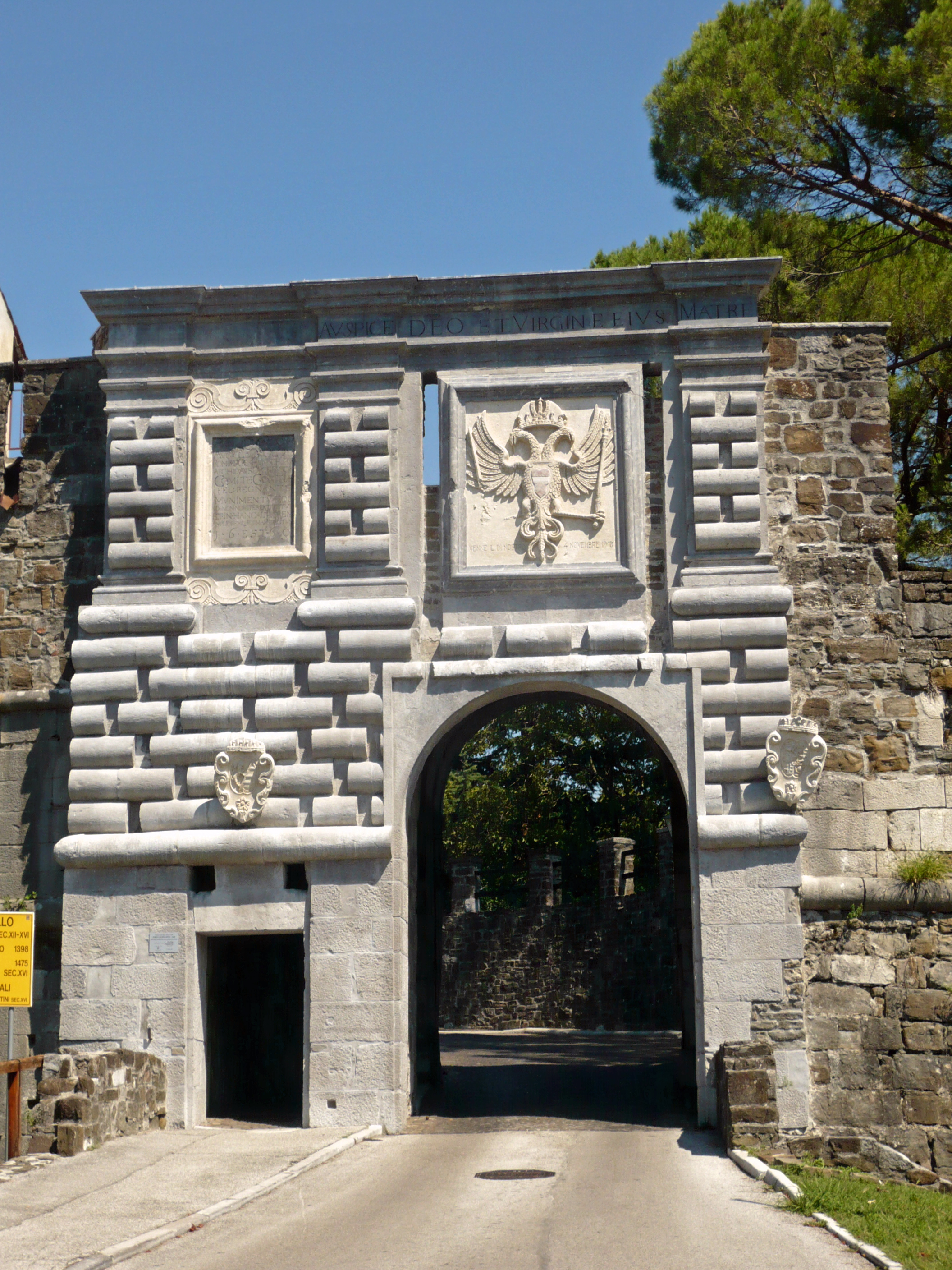 Porta Leopoldina or Leopold's Gate in Gorizia/ Gorica (Italy).